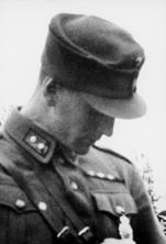 Rolf Winqvist, Knight of the Mannerheim Cross #55